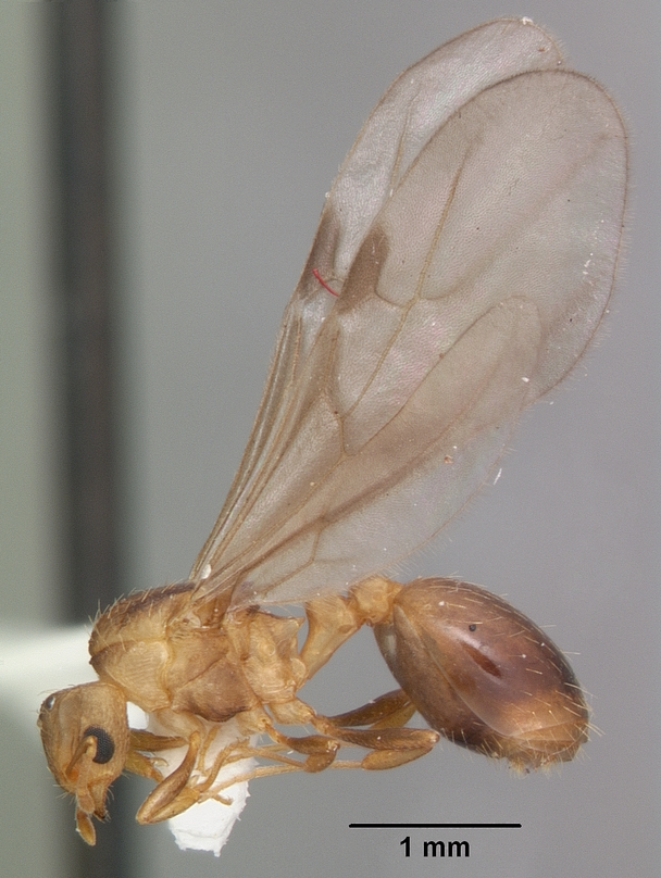 Profile view of ant Wasmannia auropunctata specimen casent0102747.